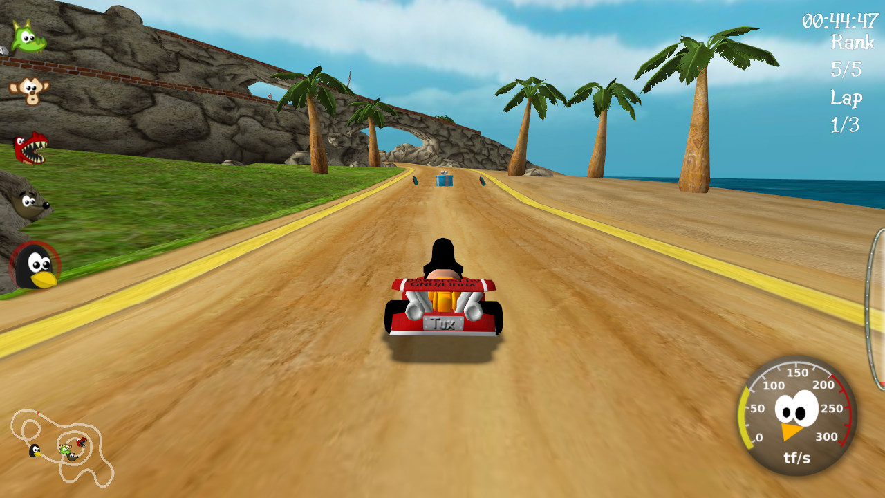 A screenshot of the island track from the SuperTuxKart game